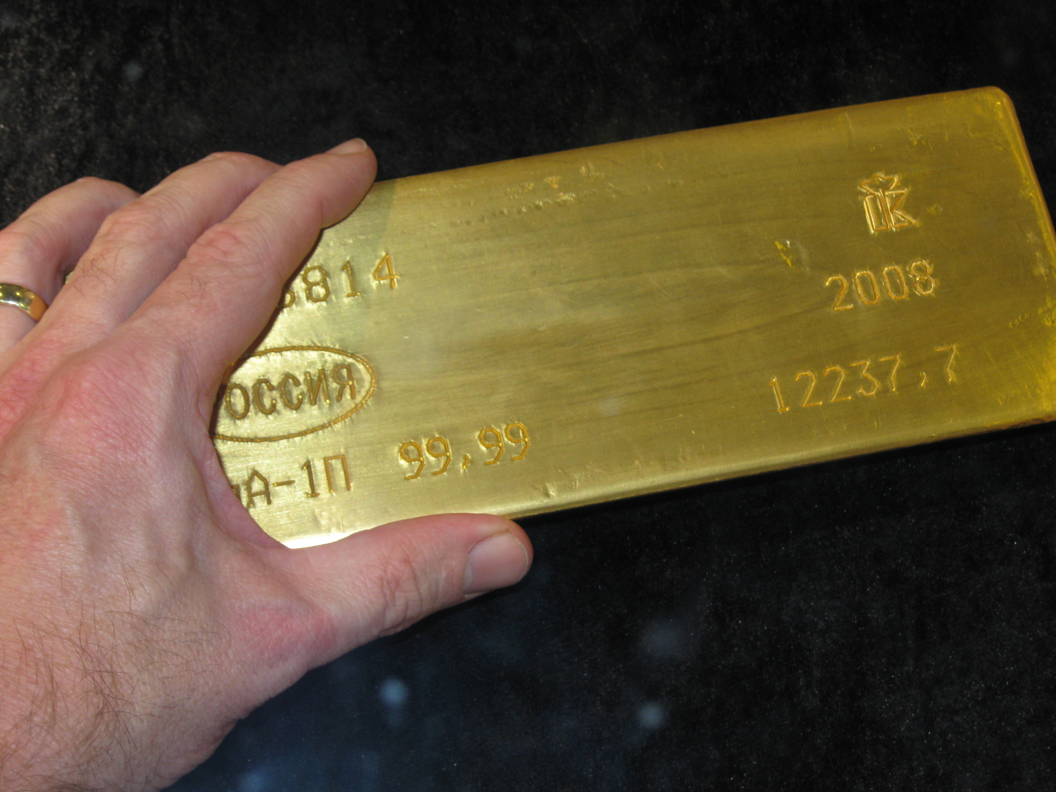 gold bar 400 ounces, sample at the Precious Metal Fair in Munic 2010